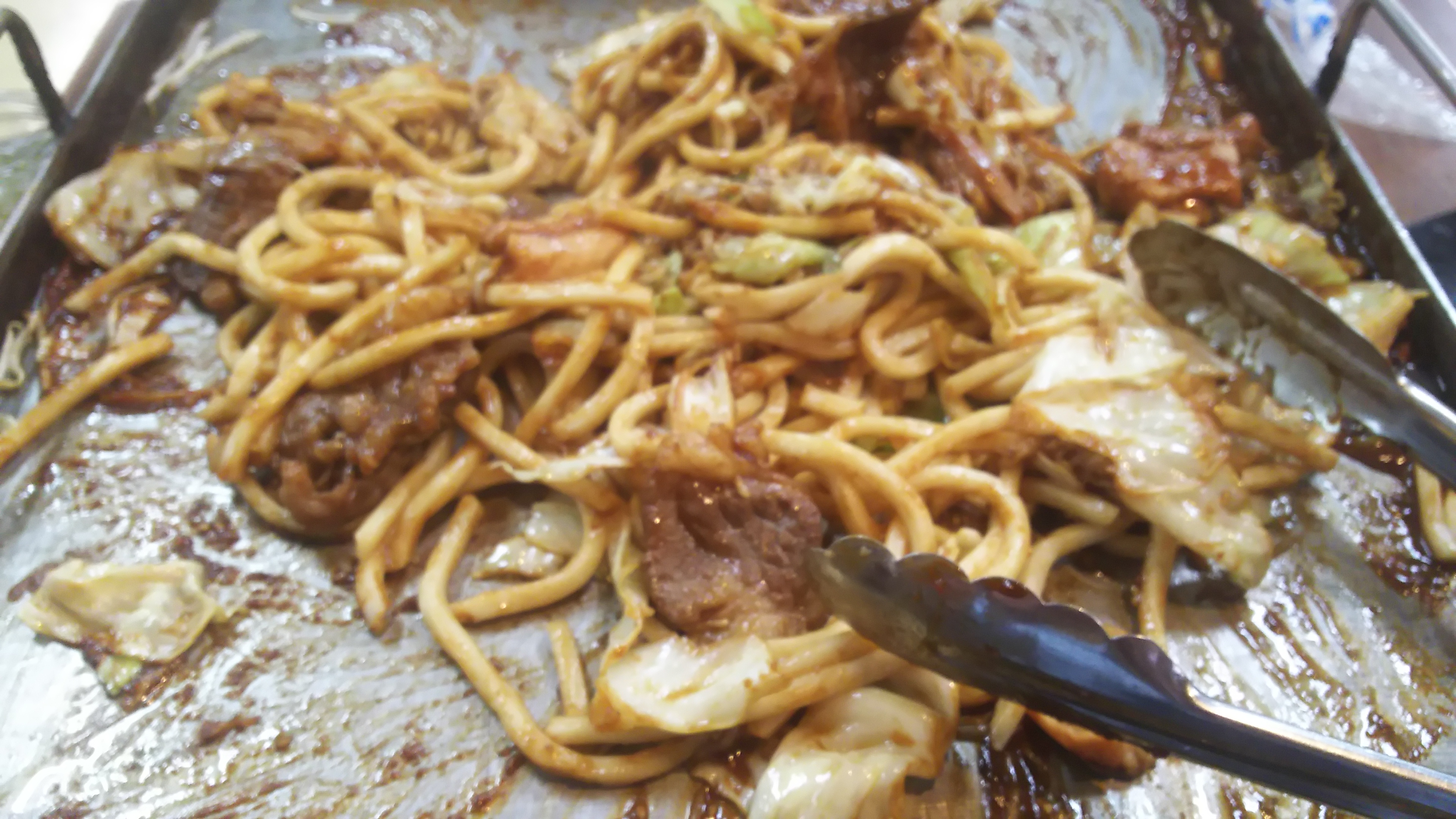 This is Kameyama Miso Yakiudon cooked at Kamehachi Shokudo, Kameyama, Mie, Japan.